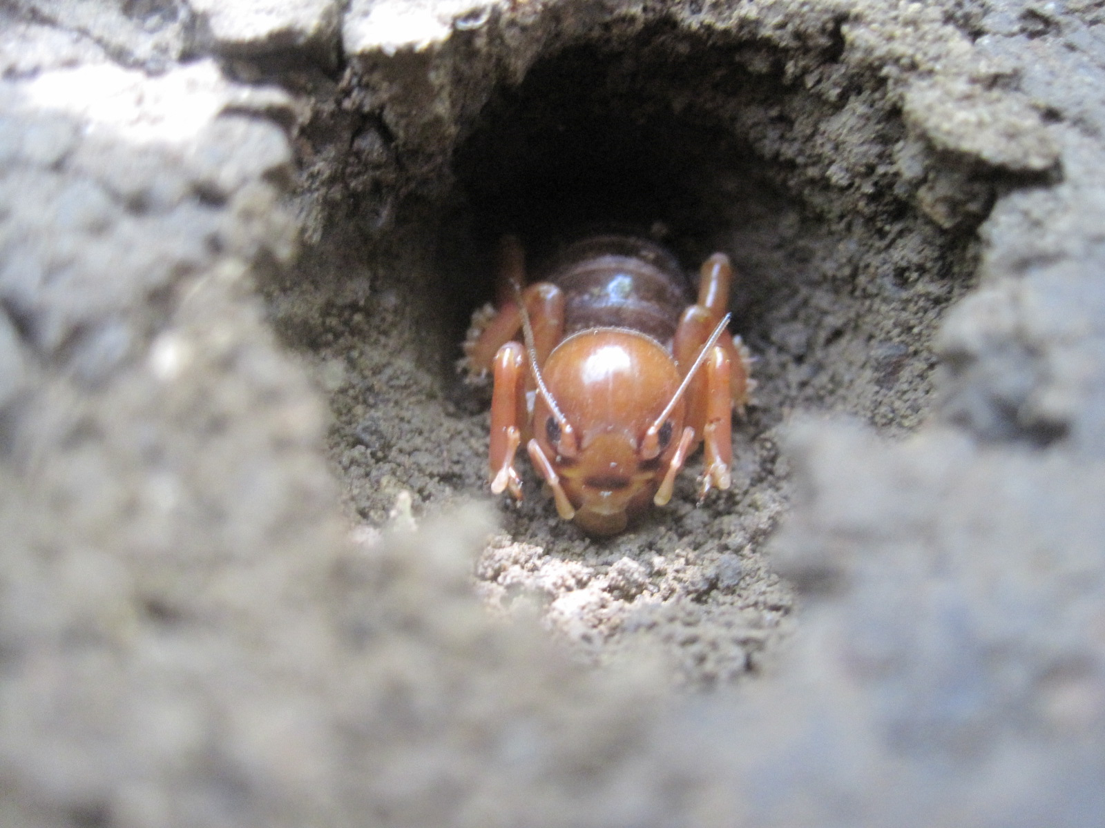 Potato Bug in its burrow. Photographed in Topanga Canyon, CA in Spring 2011.